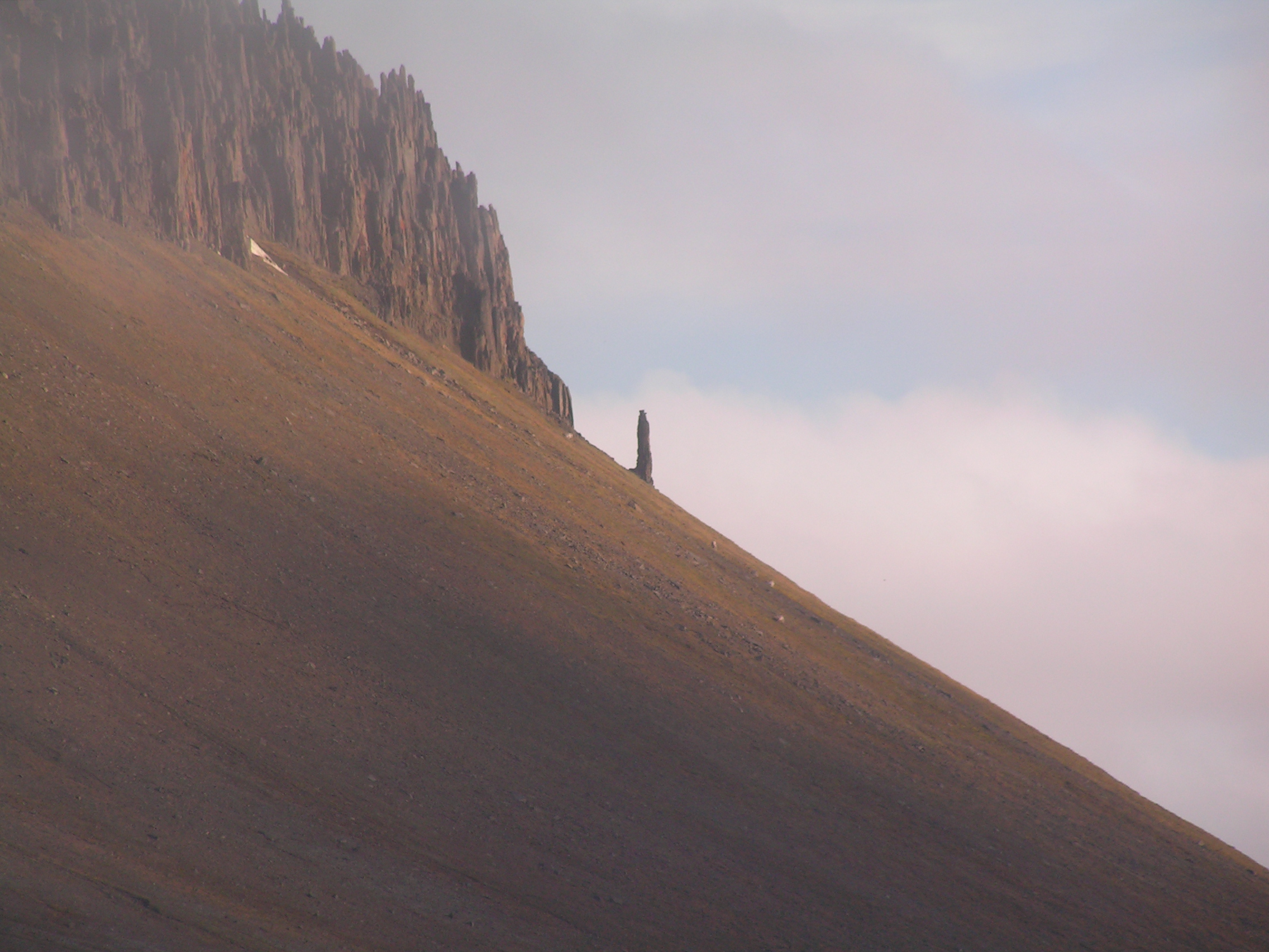 Monolith on Barents Island, Franken Peninsula